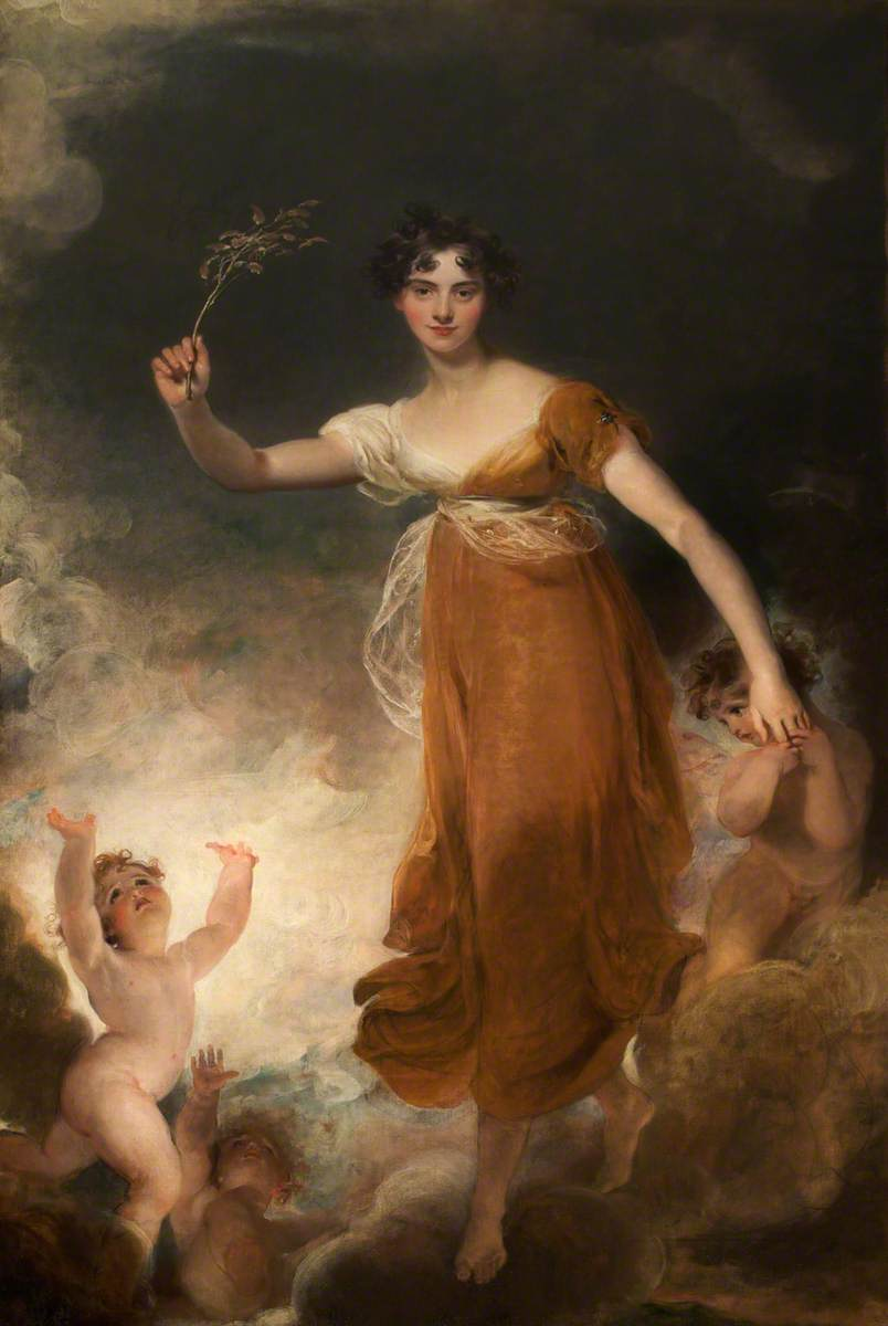 Portrait of Lady Georgiana Leicester, wife of the future John Leicester, 1st Baron de Tabley, as "Hope".